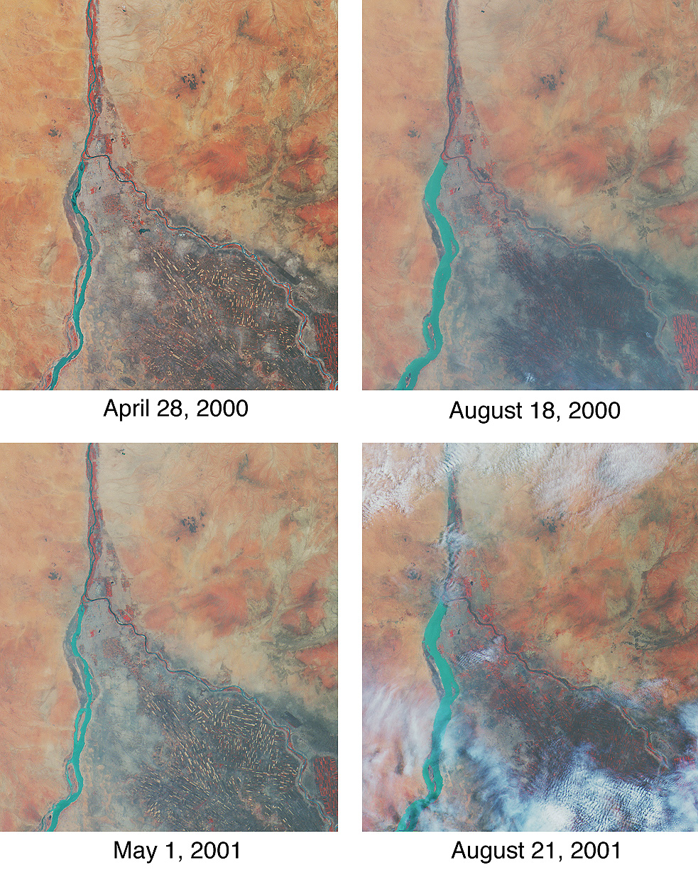 Nile River Fluctuations Near Khartoum, Sudan